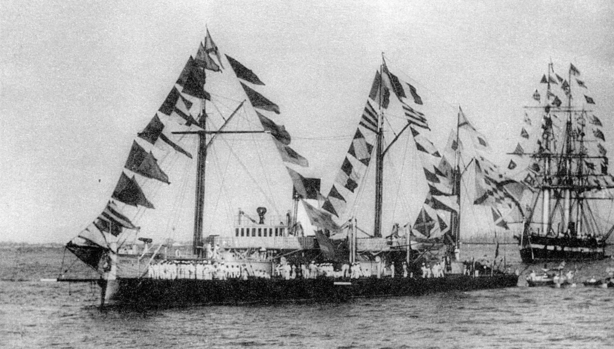 The Imperial Russian triple turret armoured frigate Admiral Lazarev and screw frigate Svetlana.